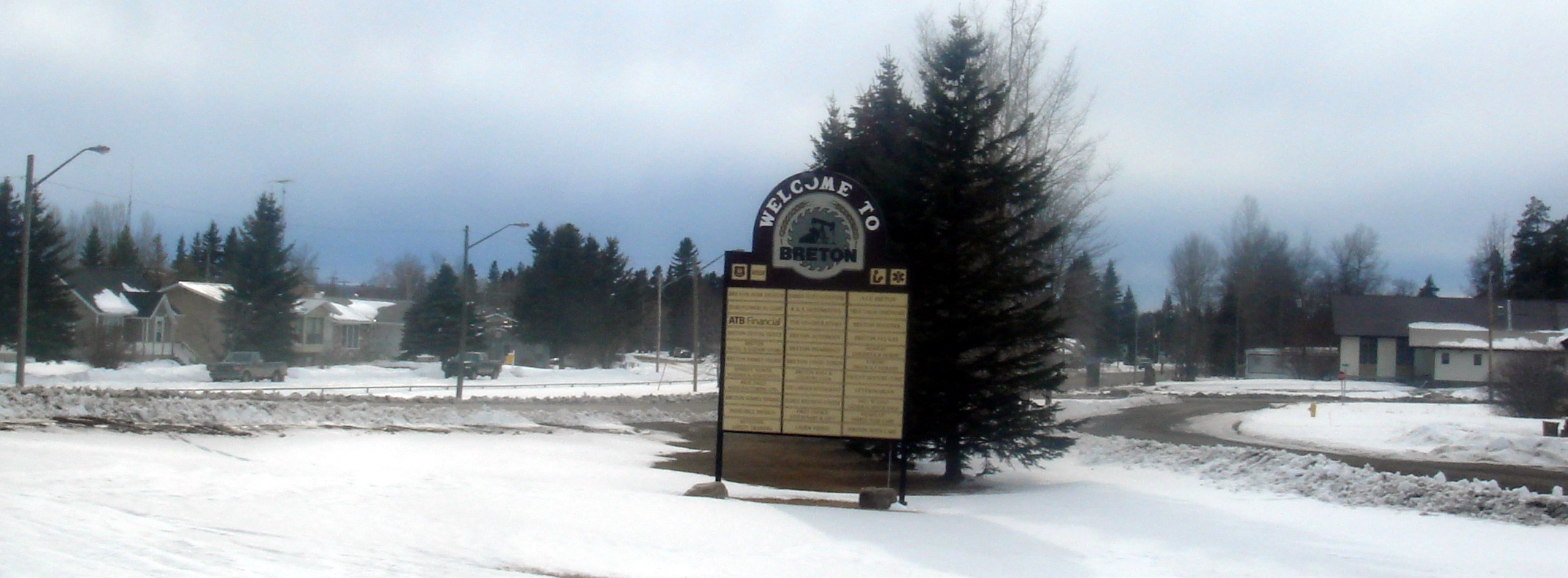 Breton, Alberta